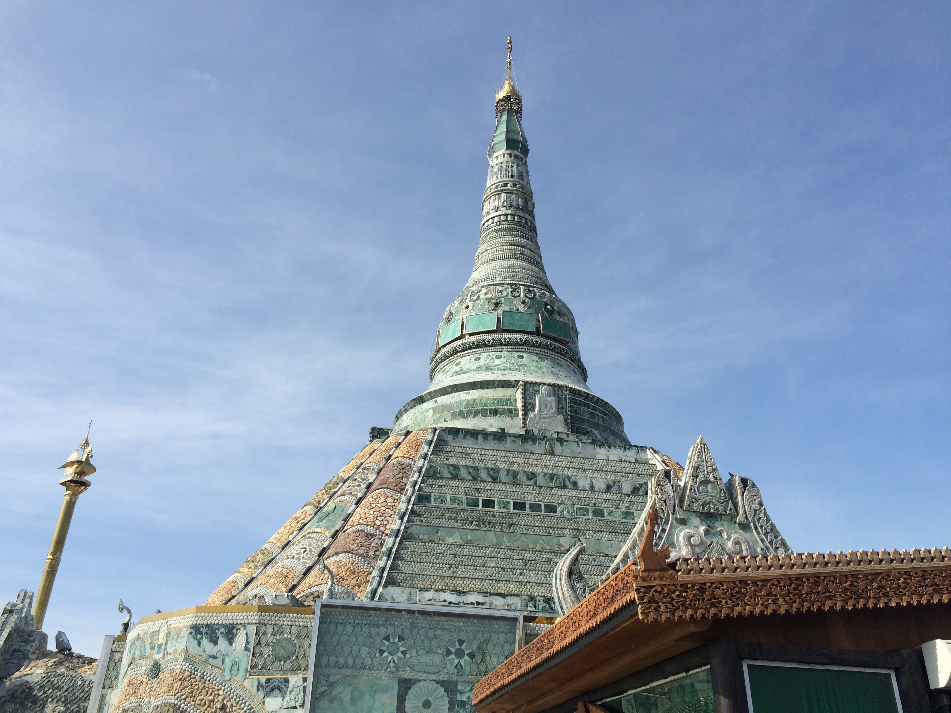 Jade Pagoda located at Amarapura, Mandalay. မြန်မာဘာသာ: မန္တလေးတိုင်းဒေသကြီး၊ အမရပူရမြို့နယ်ရှိ ကျောက်စိမ်းစေတီတော်